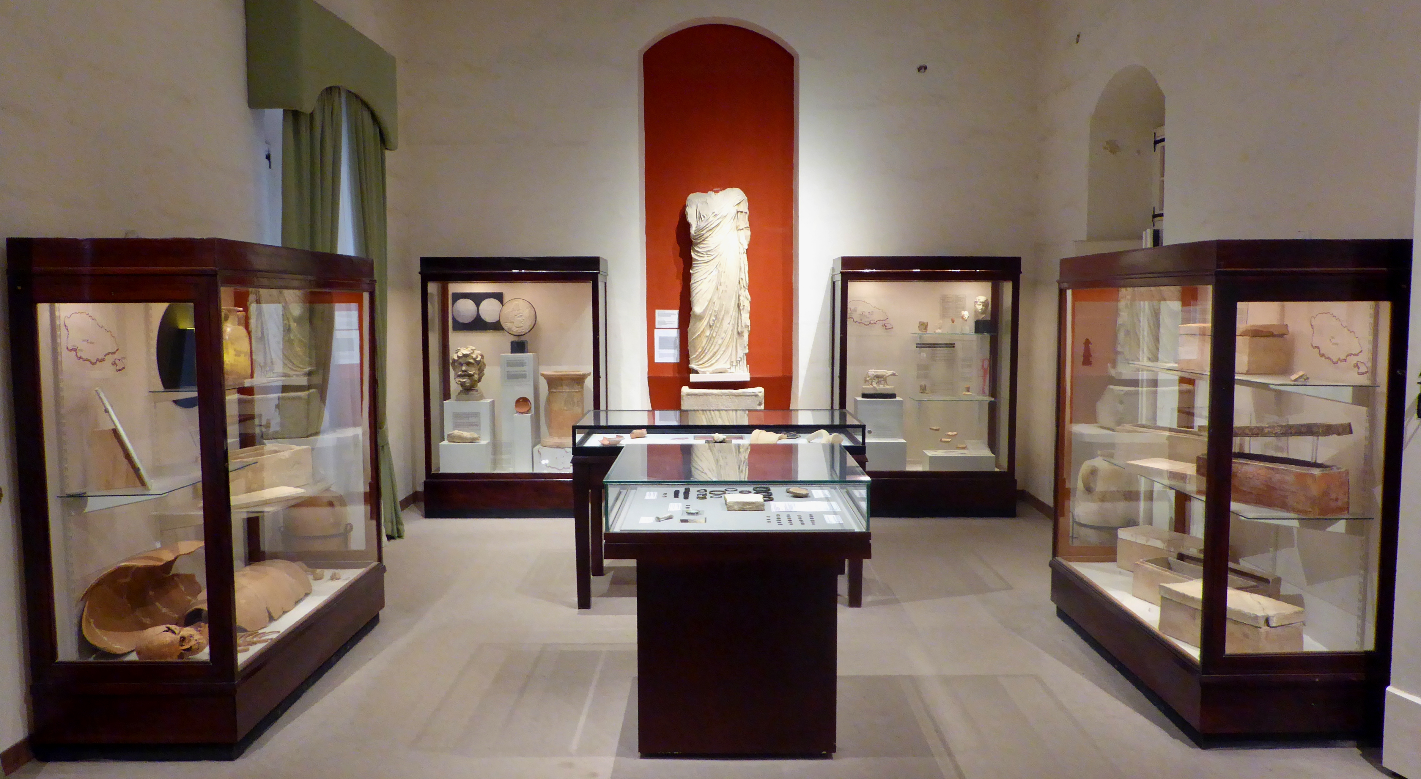 The Roman-era room in the Gozo Museum of Archaeology, Victoria.